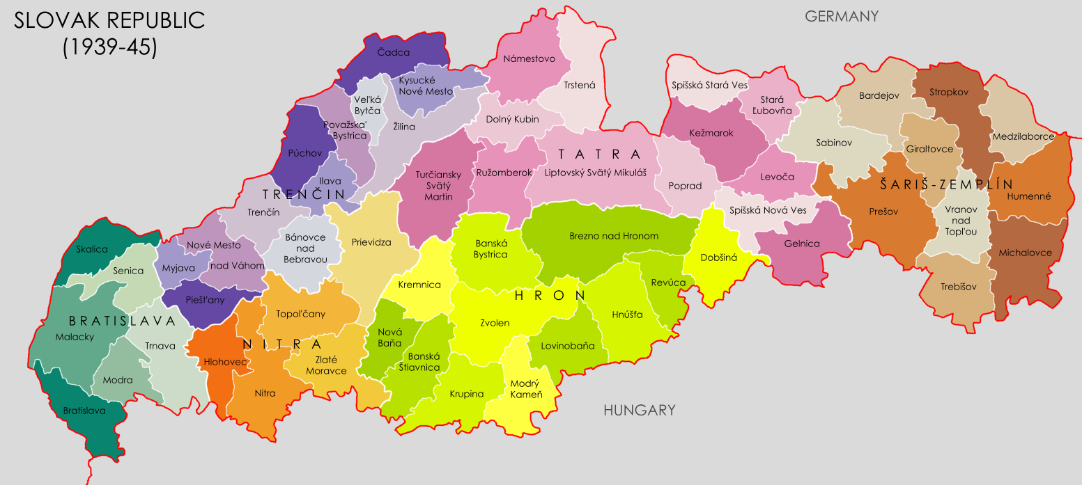 Map of the administrative subdivisions of the Slovak Republic (1939-45)